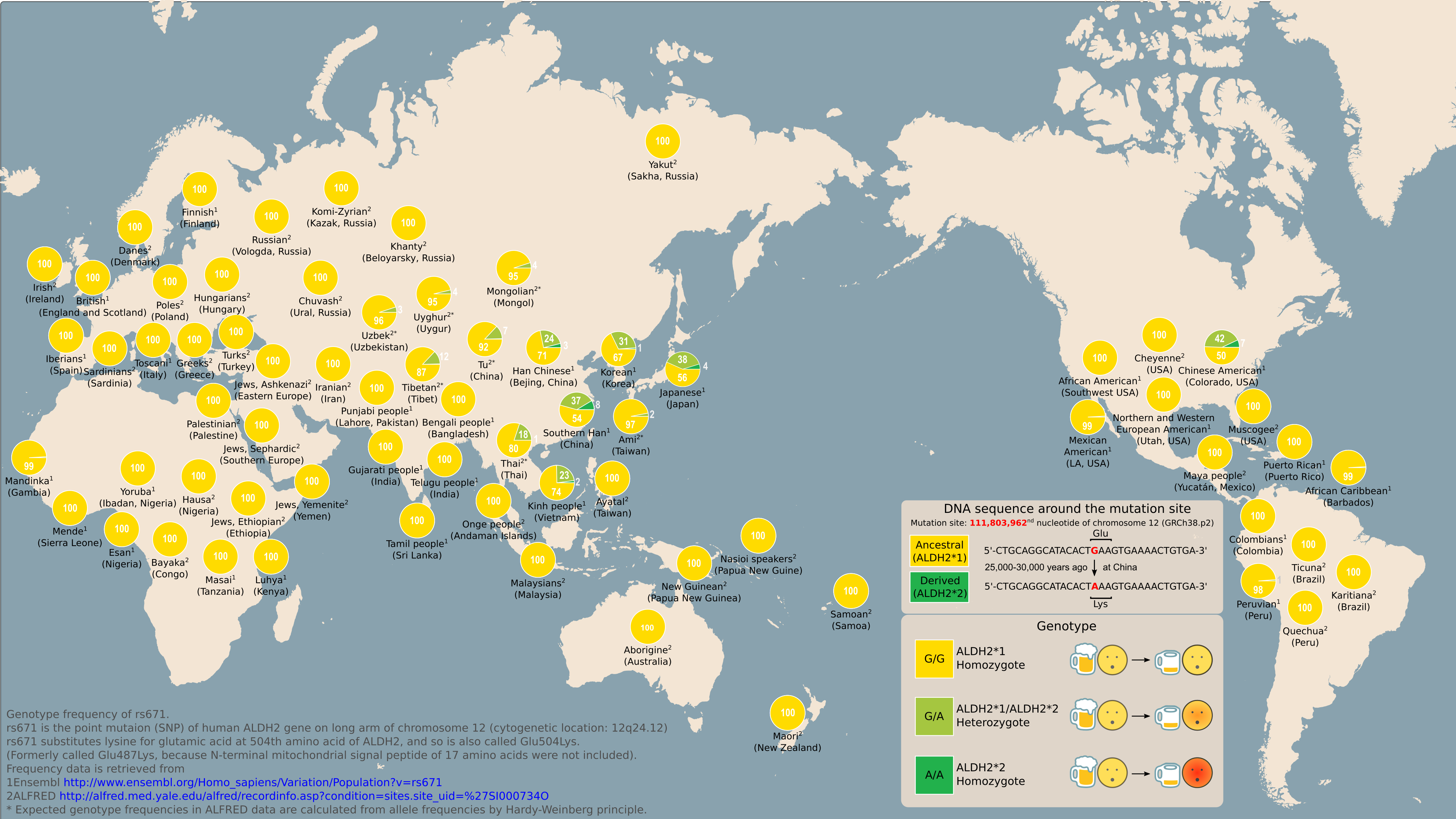 Genetype frequency of ALDH2 polymorphism, rs671, which affects alcohol flush reaction.